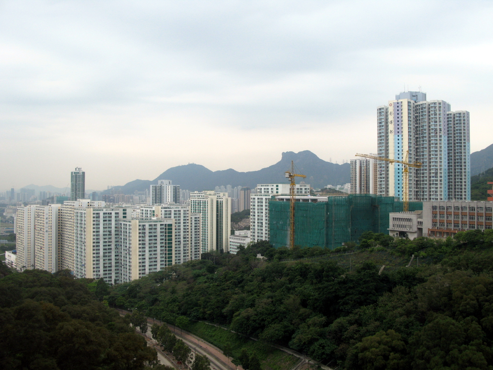 香港彩雲邨 HK Choi Wan Estate